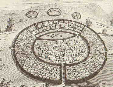 The royal kraal of Zulu king Dingane, showing the isigodlo or king's family quarters and harem at the top of the big circle. Outside the circle and at the very top, the military kraals of the amabutho or king's regiments. To the left and out of view was Reverend Owen's camp on Hlomo amabutho.